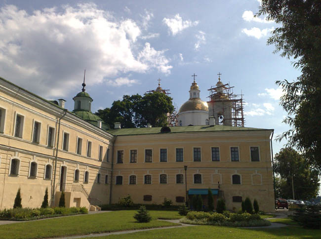 Bogoyavlensky Monastery in Polotsk (Belarus)